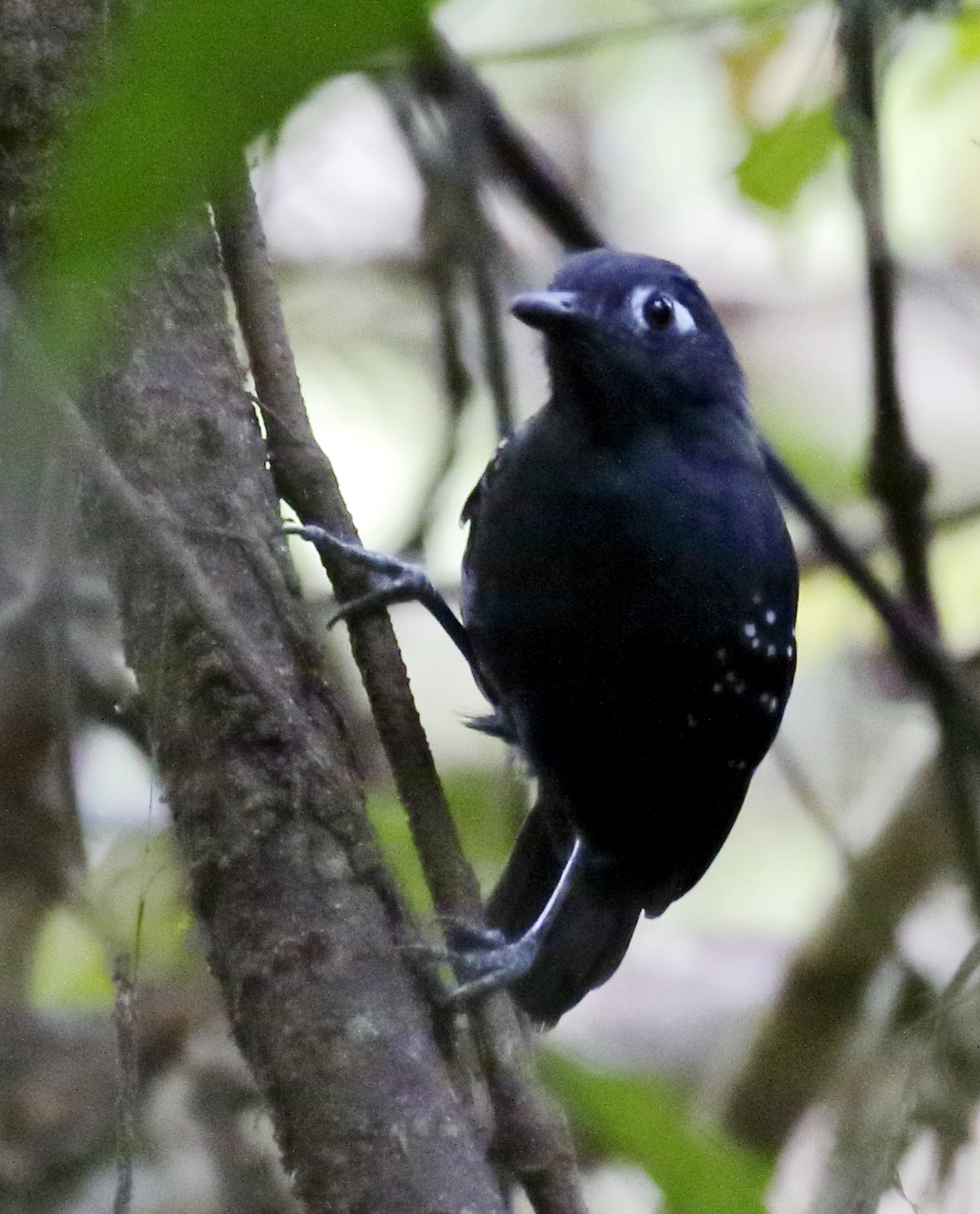 Plumbeous antbird (male) at Rio Branco, Acre, Brazil